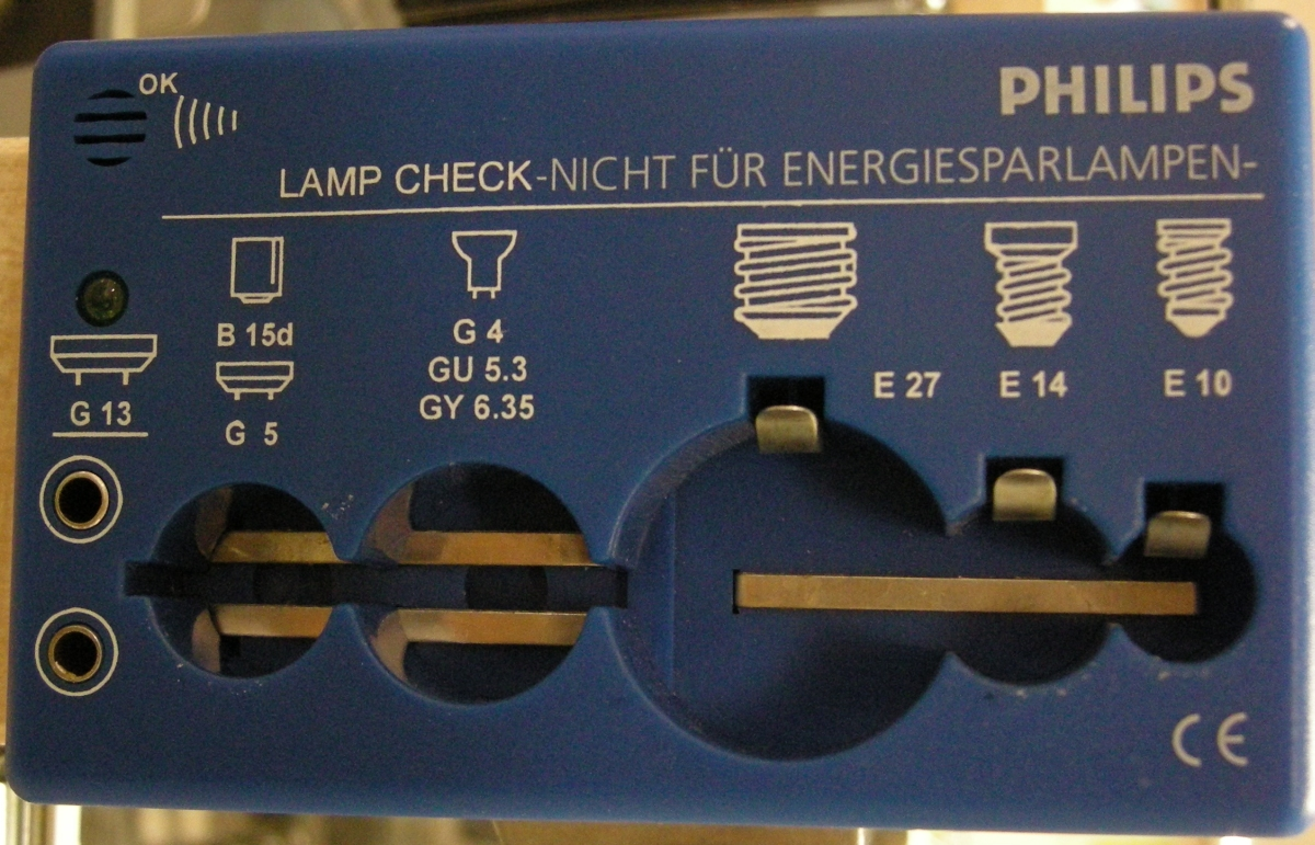 A Philips universal lamp tester. Text on device reads Lamp tester: not for use with energy-saving bulbs